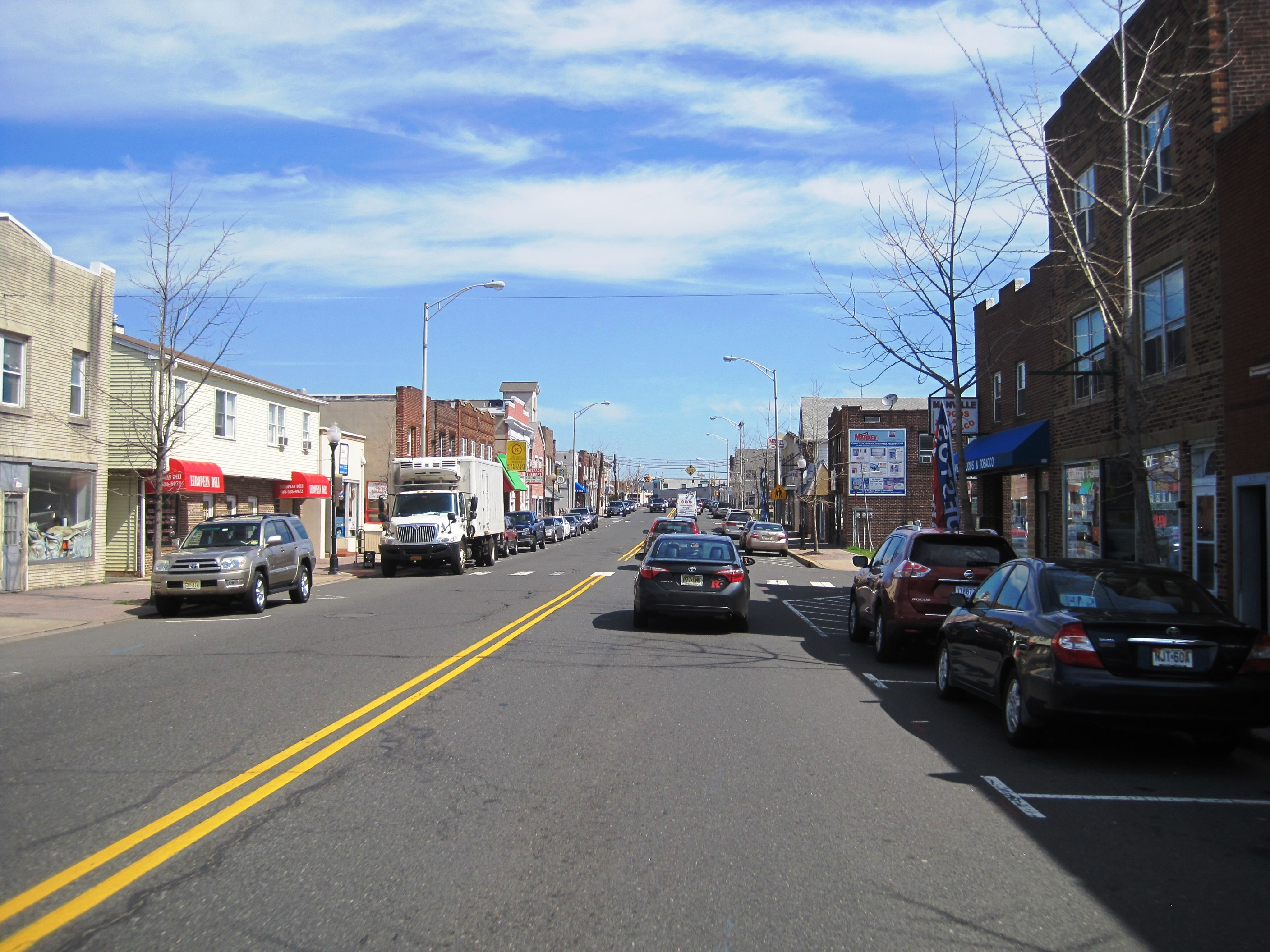 Photo of the central business district of Manville, New Jersey. Photo taken on northbound Main Street (County Route 533) approaching Beekman Street.